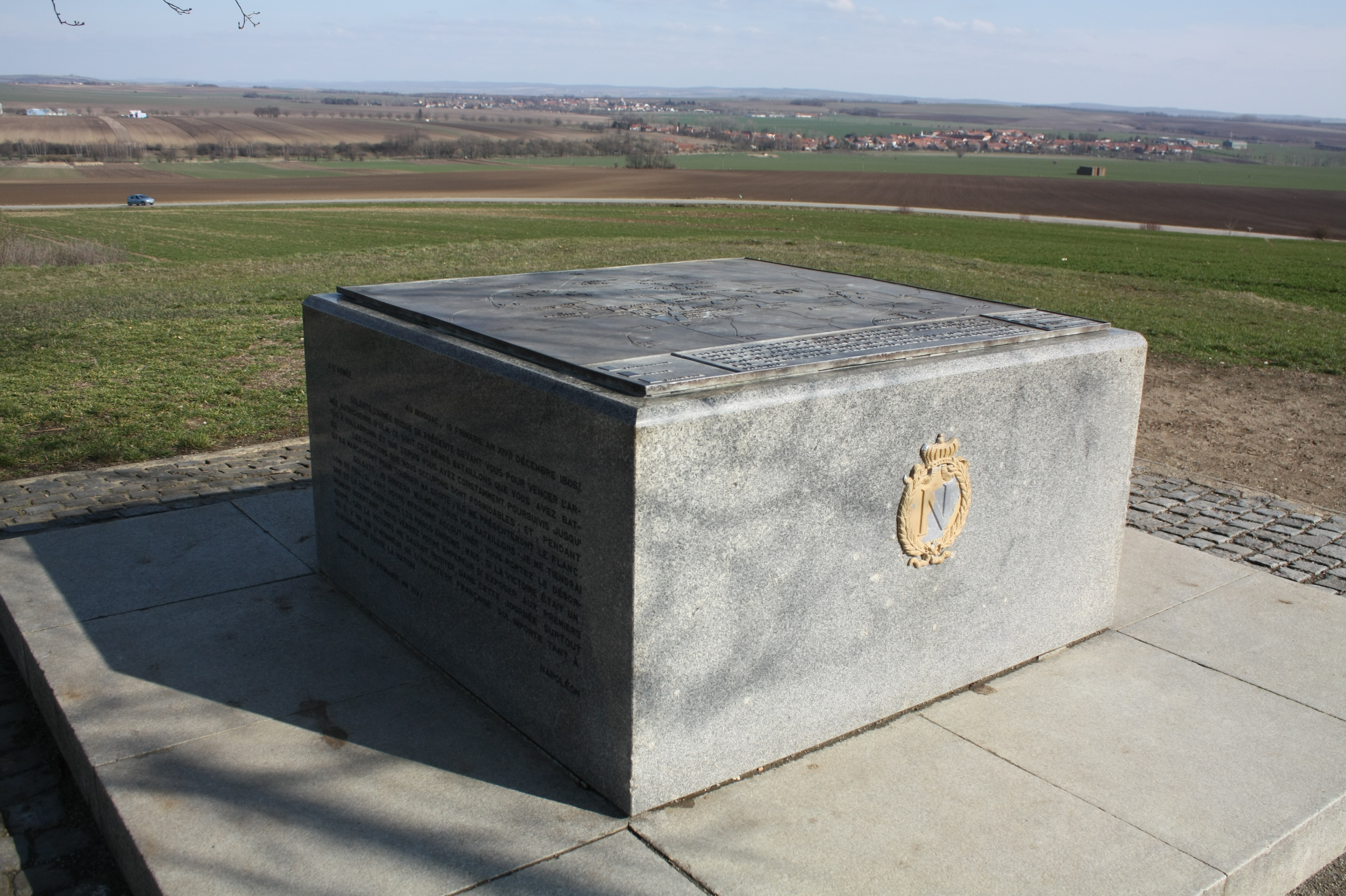 Žuráň hill, Brno-Country District, Czech Republic